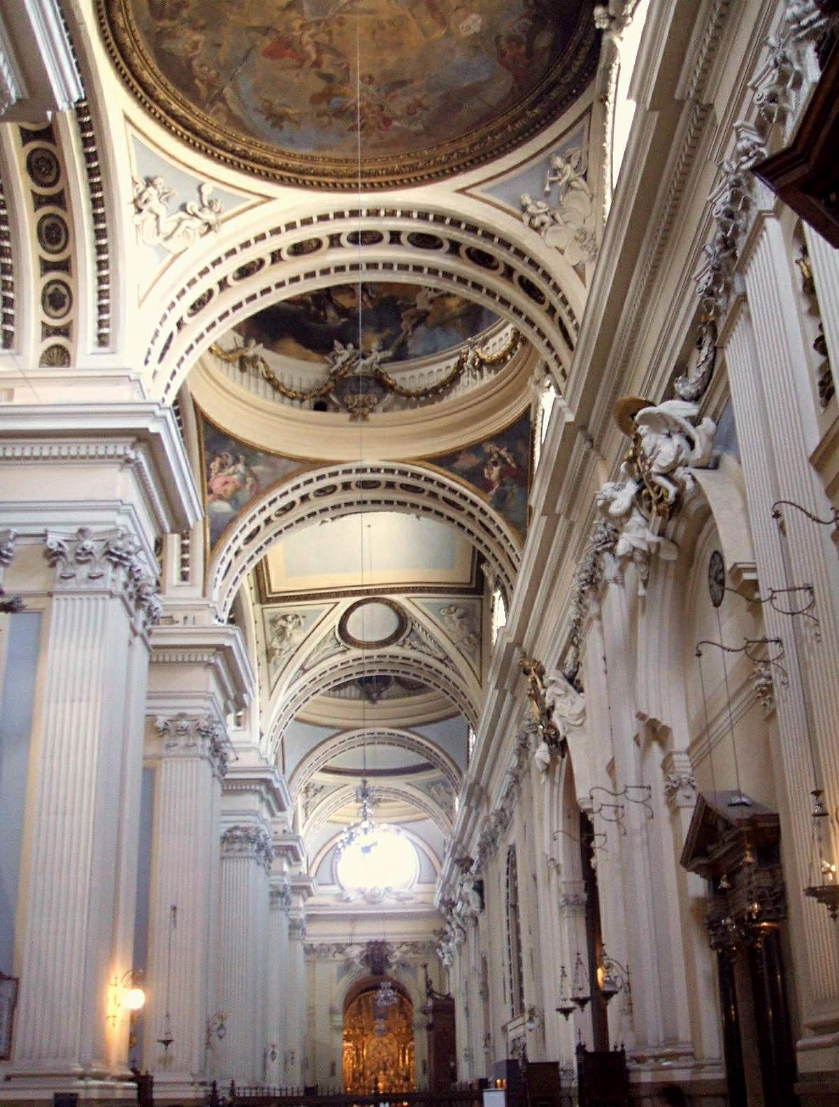 Nave de la Epístola (sur) de la Basílica del Pilar de Zaragoza